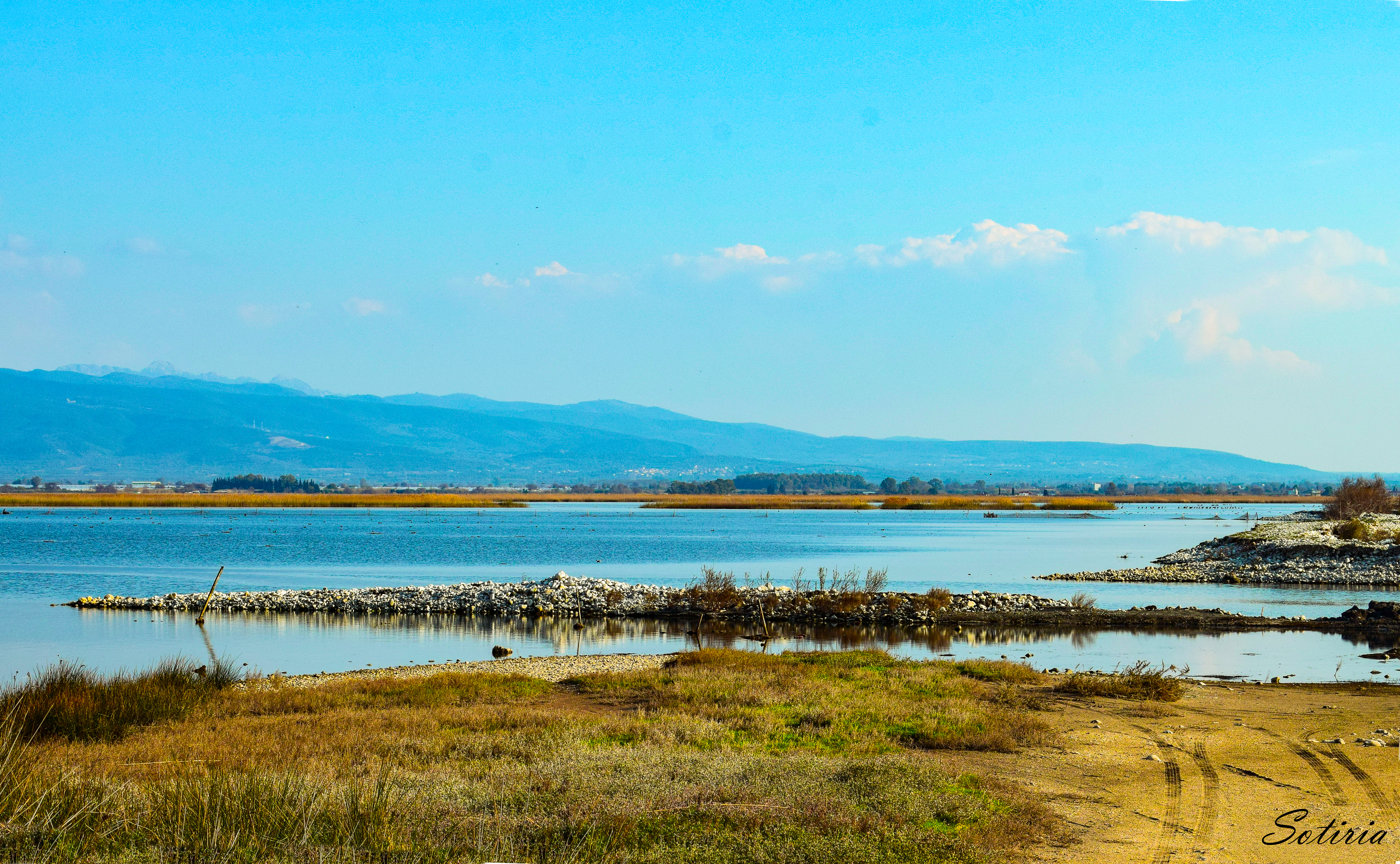 This is a photography of Natura 2000 protected area with ID GR2320001